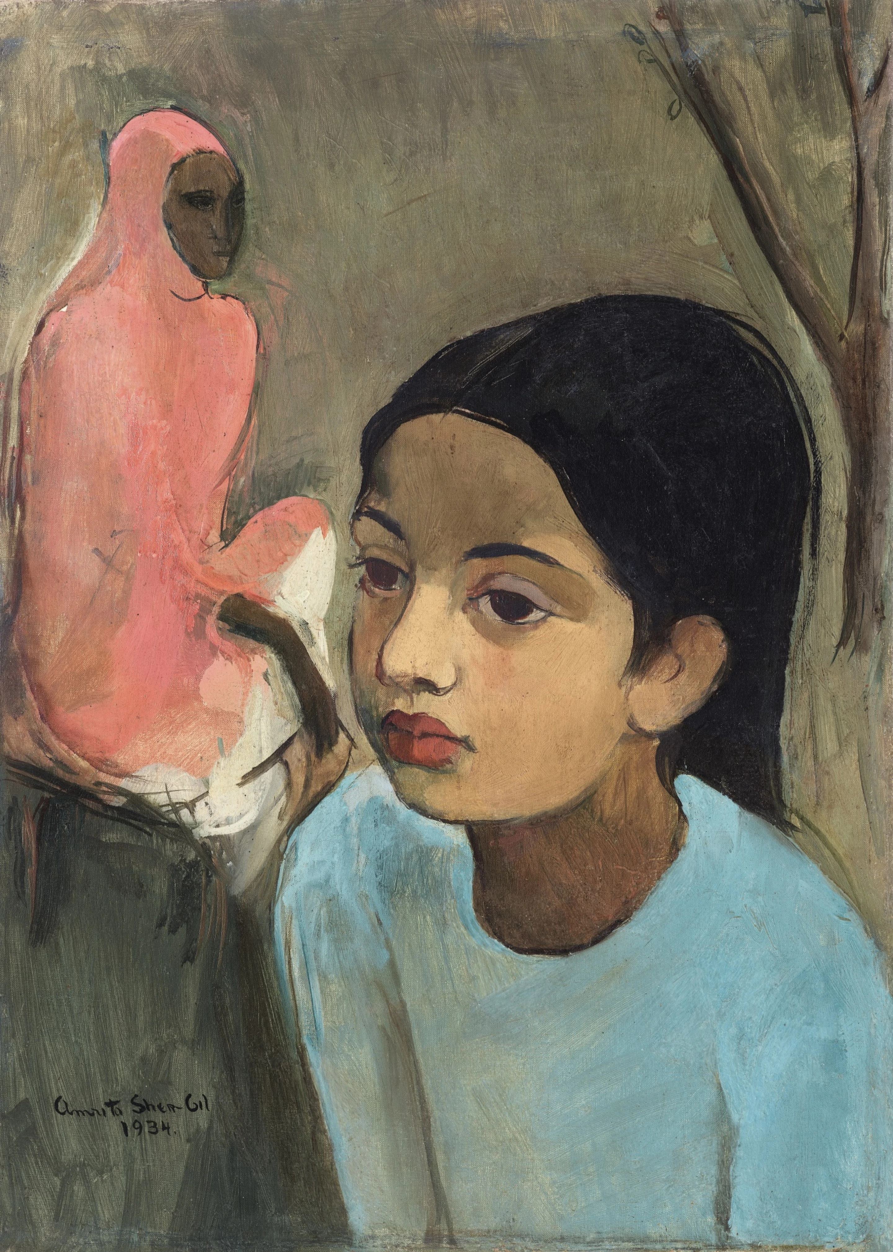 The Little Girl in Blue by Amrita Sher-Gil, oil on canvas, 1934, 40.6x 48 cm.